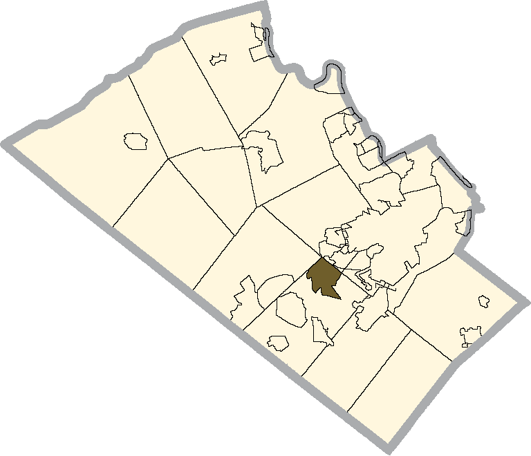 Wescosville shaded on the map of Lehigh County.